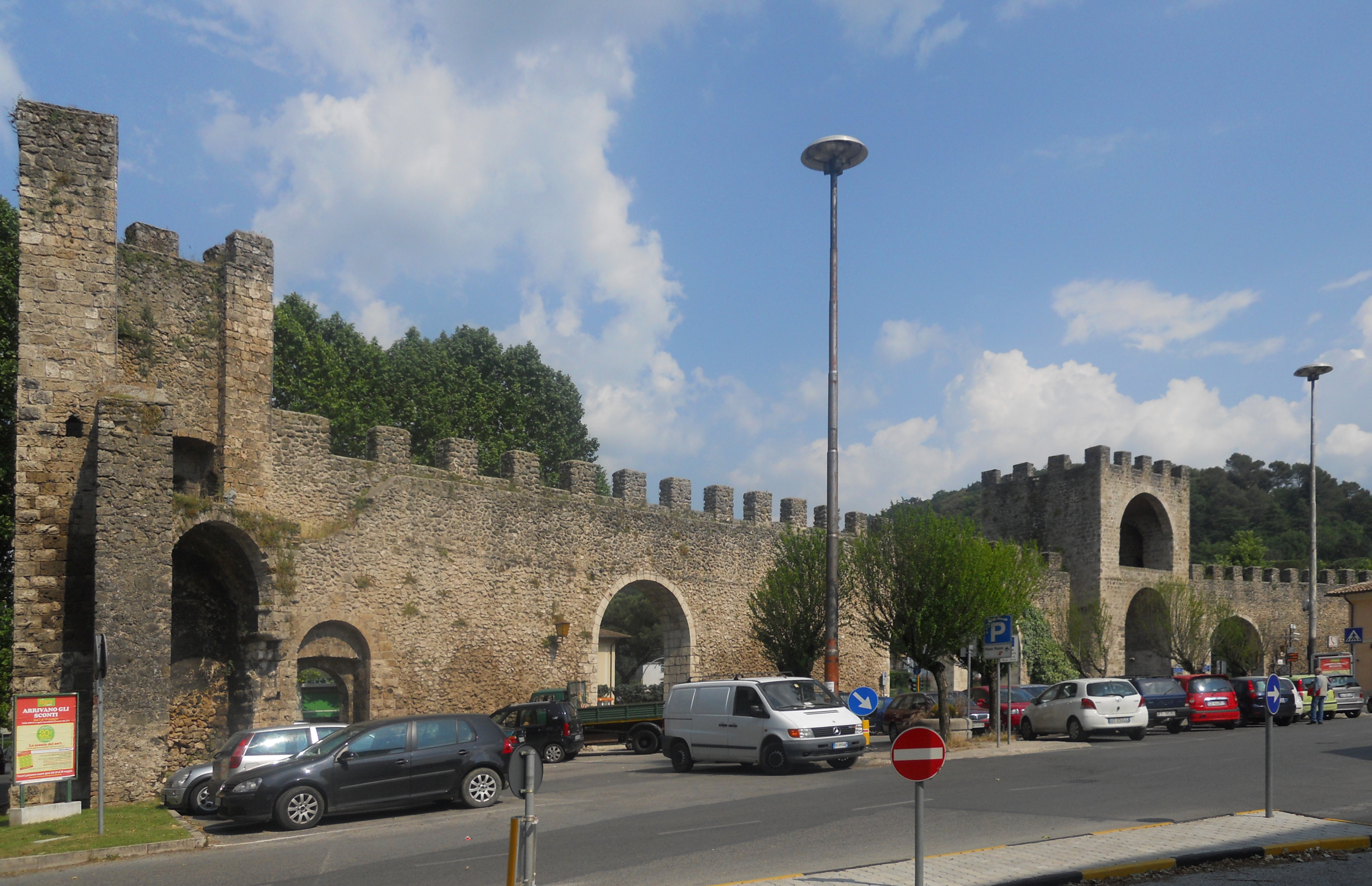 Walls surrounding Porta d'Arci - interior side - Rieti, Italy